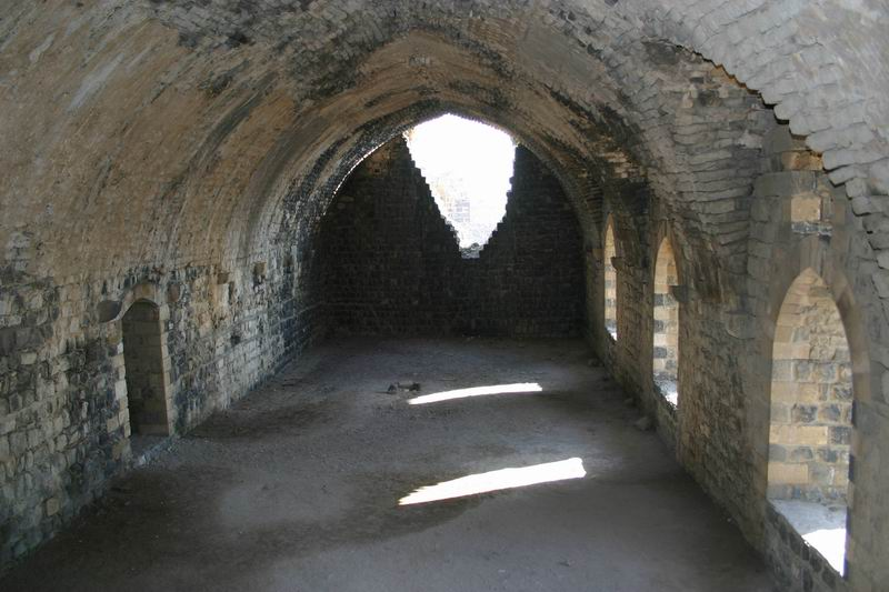 Margat, eigenes Foto von 2004, public domain